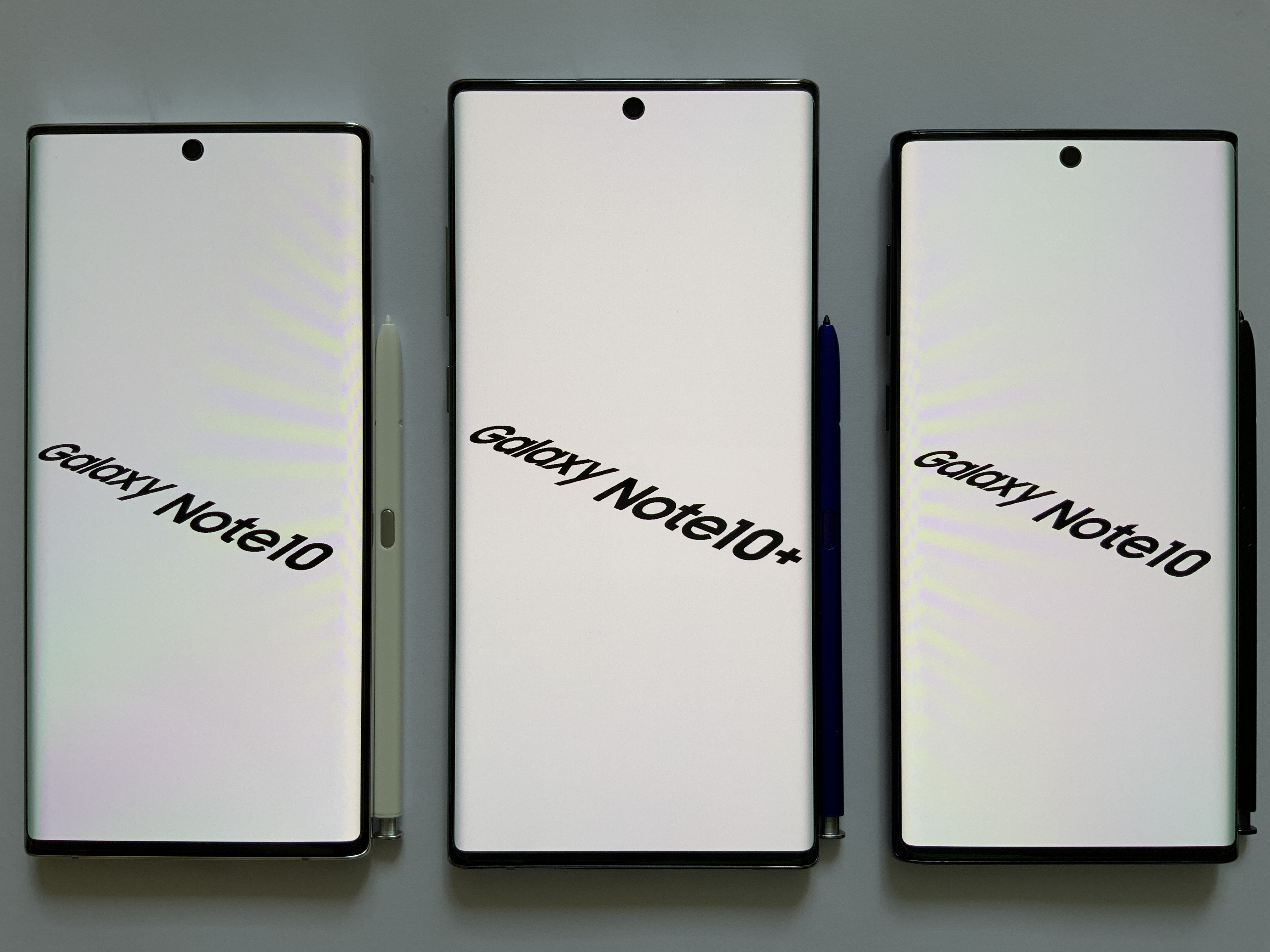 SAMSUNG Galaxy Note10 SAMSUNG Galaxy Note10 5G SAMSUNG Galaxy Note10+ SAMSUNG Galaxy Note10+ 5G